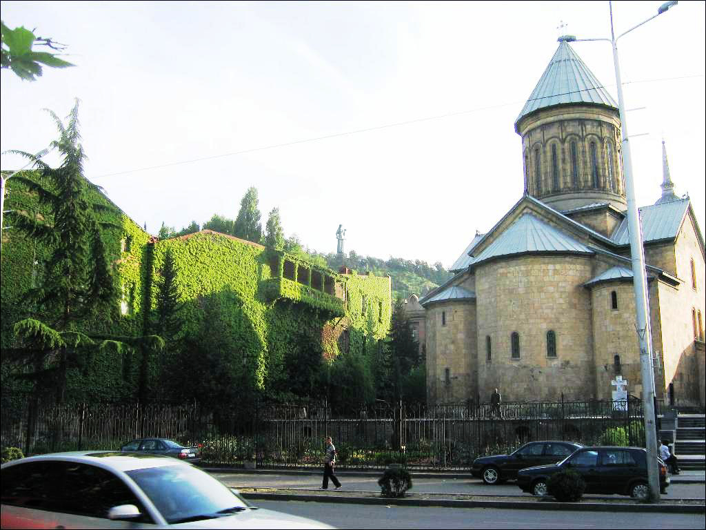 Tbilisi